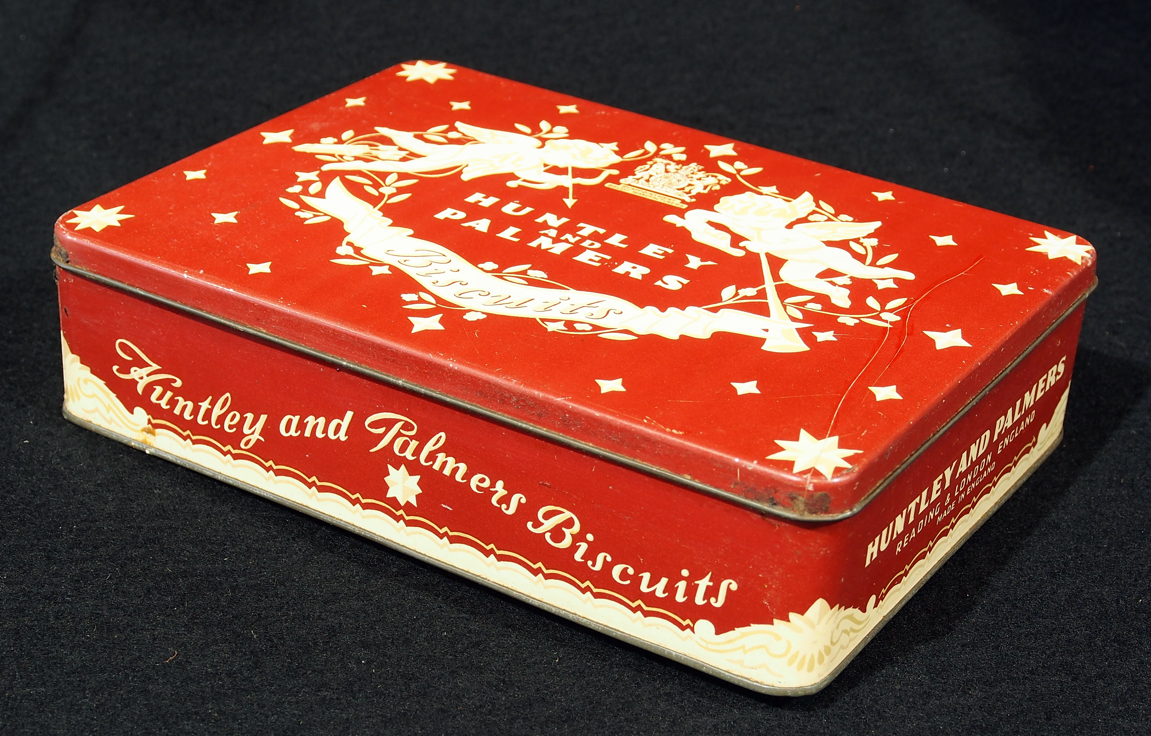 Very old packaging of a product that is not produced and/or sold any more.